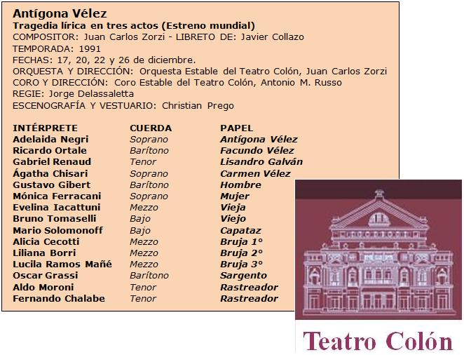 Cast list of Juan Carlos Zorzi's 1991 opera Antígona Vélez at the Teatro Colón; libretto by Javier Collazo